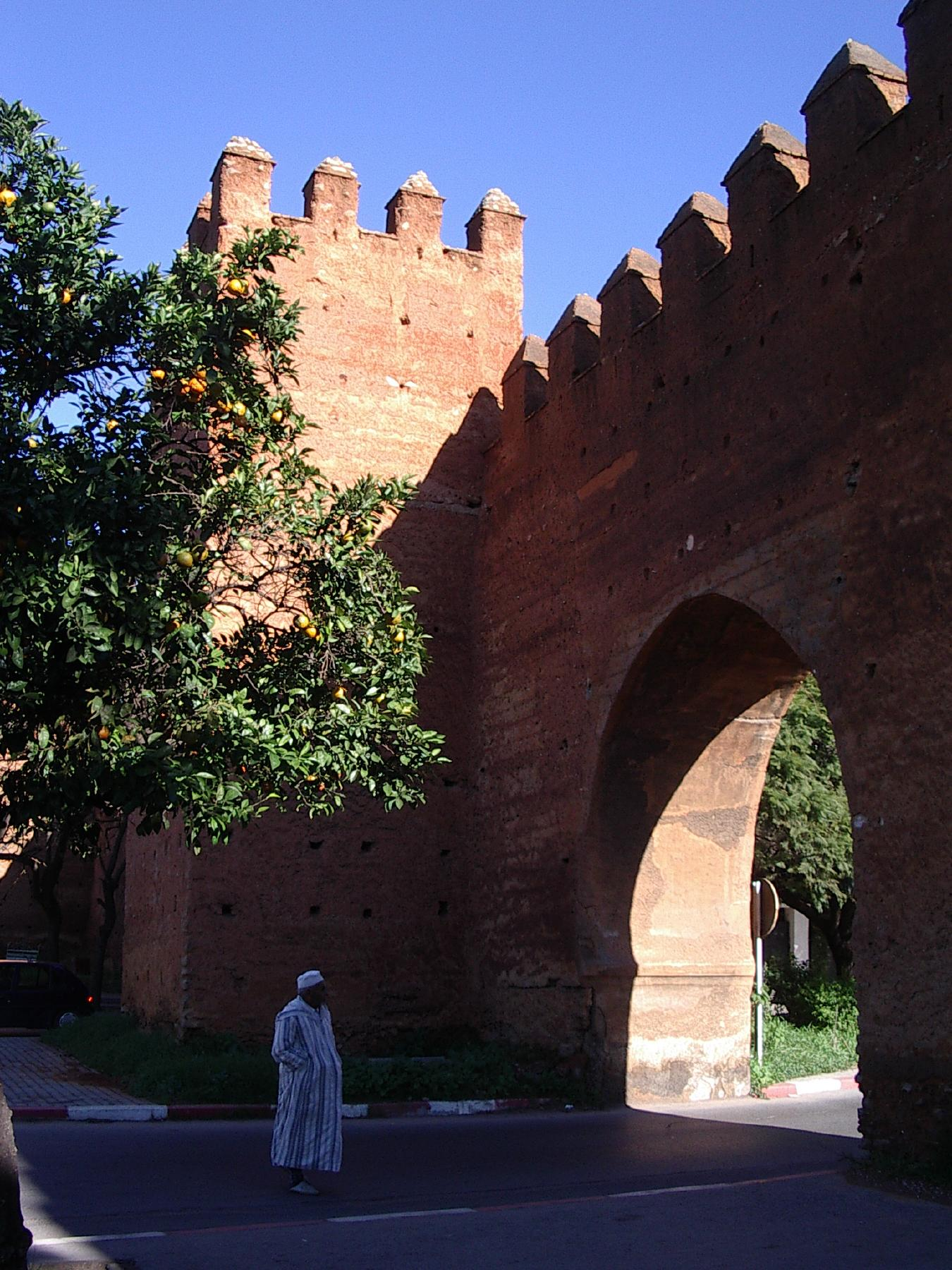 City walls of Rabat, Morroco